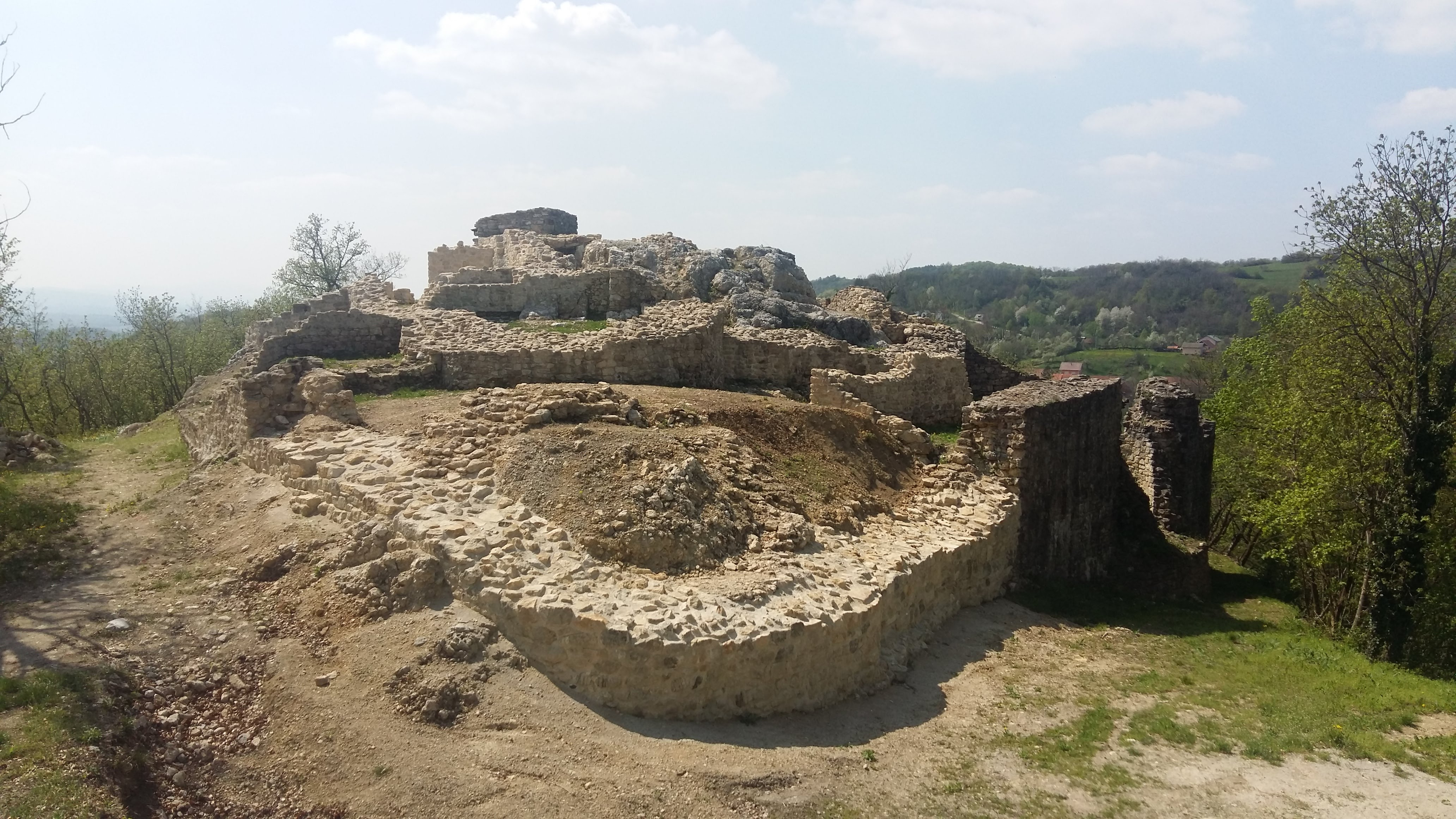 The remains of Čanjevo fortress